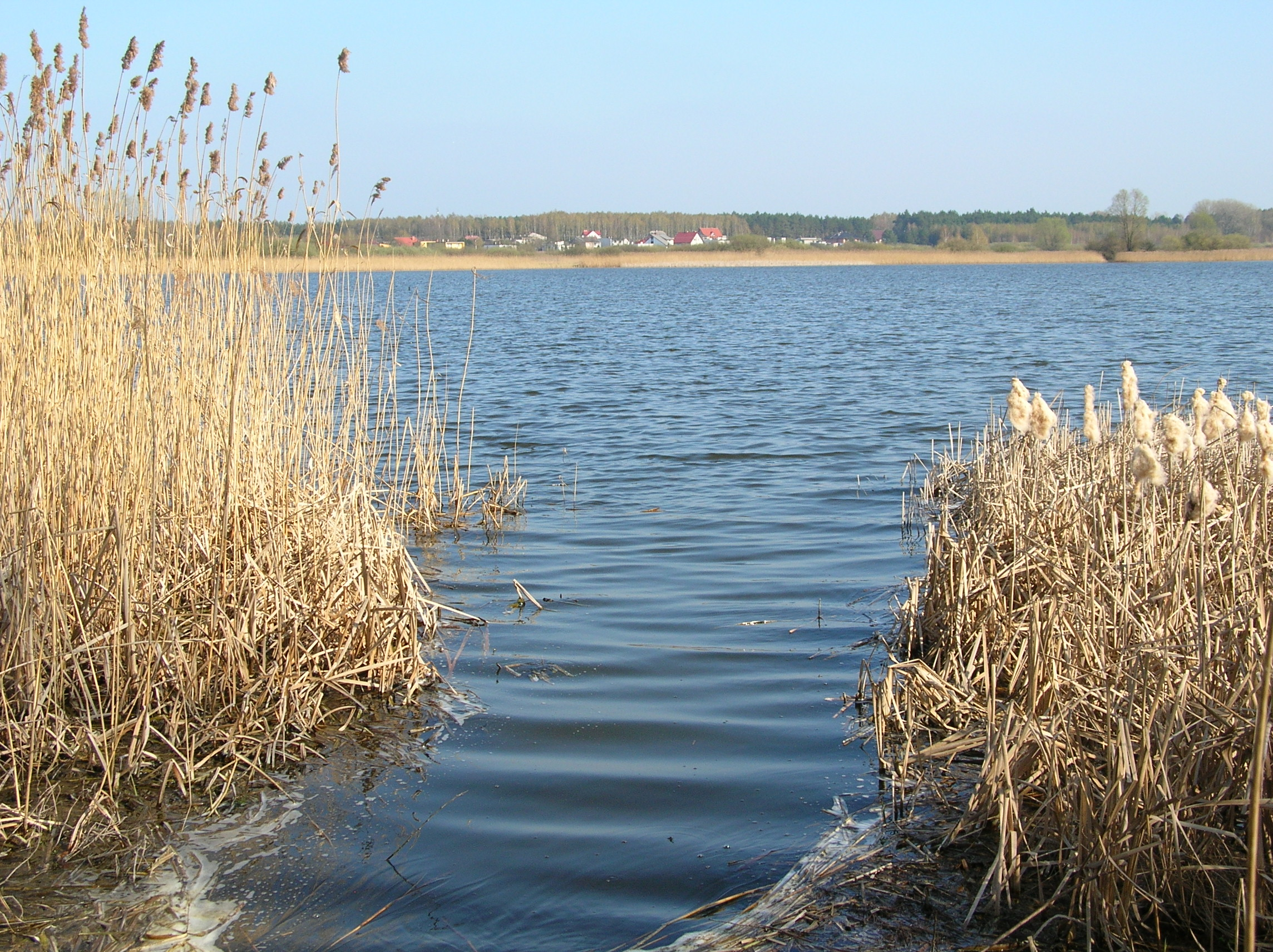 Zioło Lake and Rogowo village